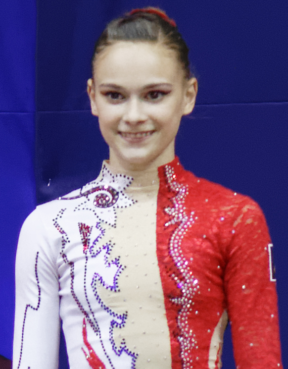 Eline De Smedt at the 2014 Acrobatic Gymnastics World Championships, 10th-12 July, Levallois-Perret, France. Awarding ceremony.